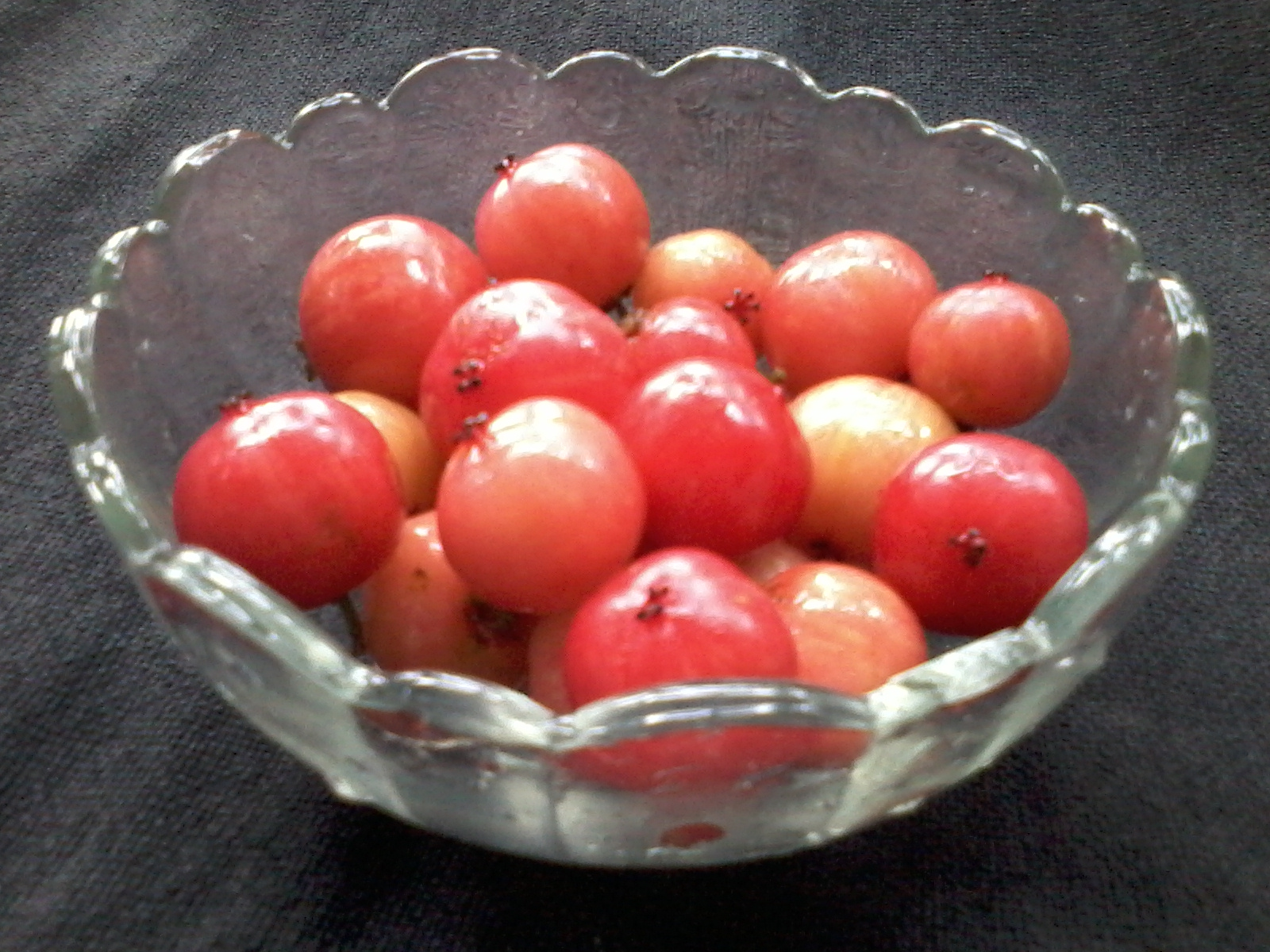 Flacourtia jangomas, Indian coffee plum , is a lowland and mountain rain forest tree in the Salicaceae or Willow Family. It is found in Asia especially in India. It is called ലൗലോലിക്ക (luvlolika) or ലൂബിക്ക (lubica) in Kerala.